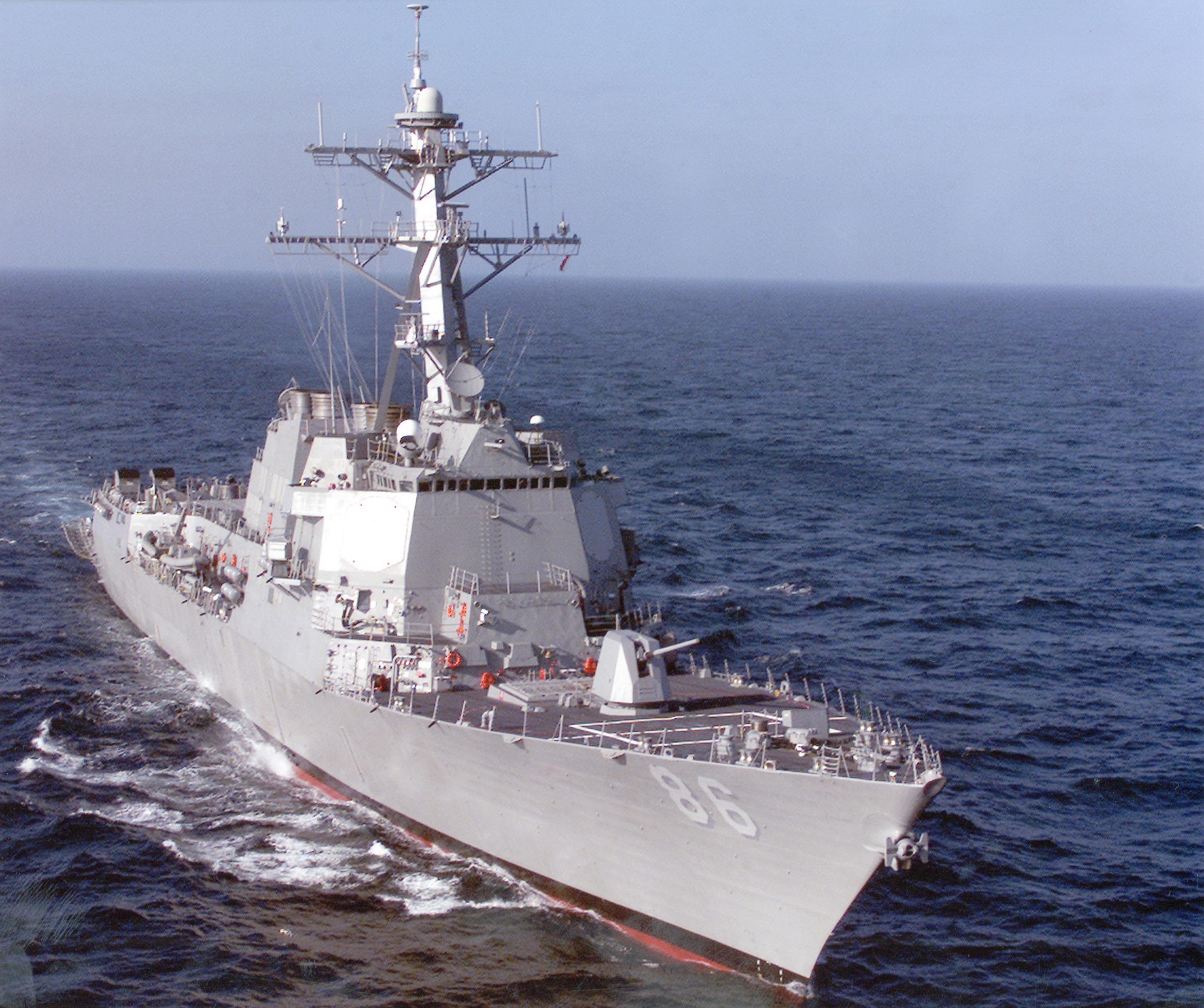 Gulf of Mexico (Dec. 11, 2001) -- The Arleigh Burke (Flight IIA) class guided missile Destroyer USS Shoup (DDG 86) underway during builder’s sea trials. U.S. Navy photo. (RELEASED)